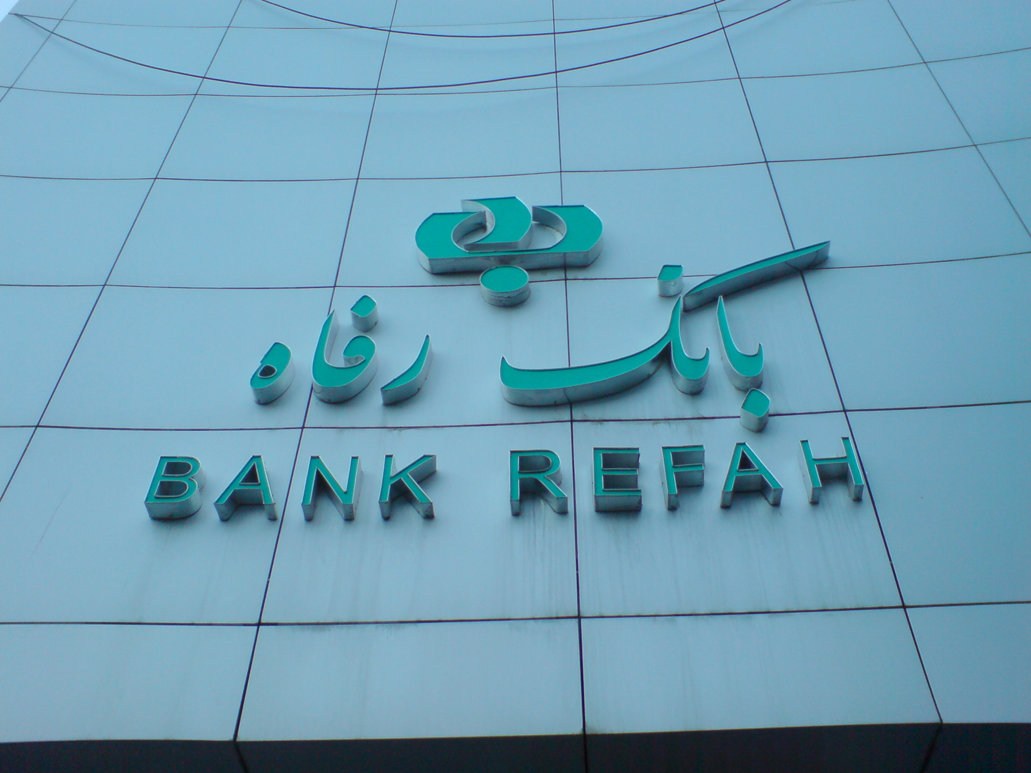 Bank Refah Nishapur